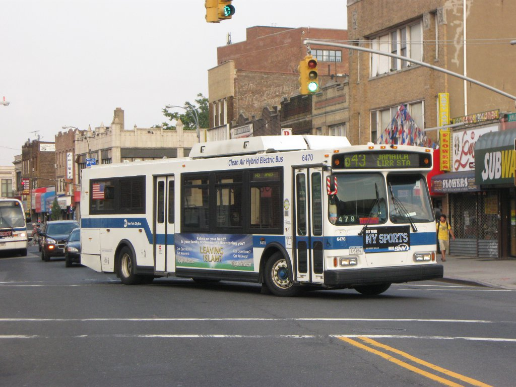 MTA New York City Bus #6470 loops around to begin another eastbound trip on the Q43 Hillside Avenue route.